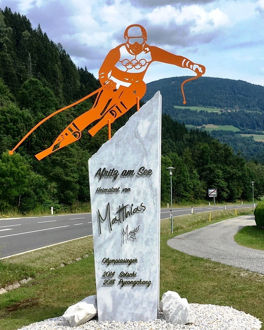 Monument for Matthias Mayer double Olympic champion of the year 2014, 2018 in his native village Afritz, Carinthia, Austria, European Union, designed by Andres Klimbacher